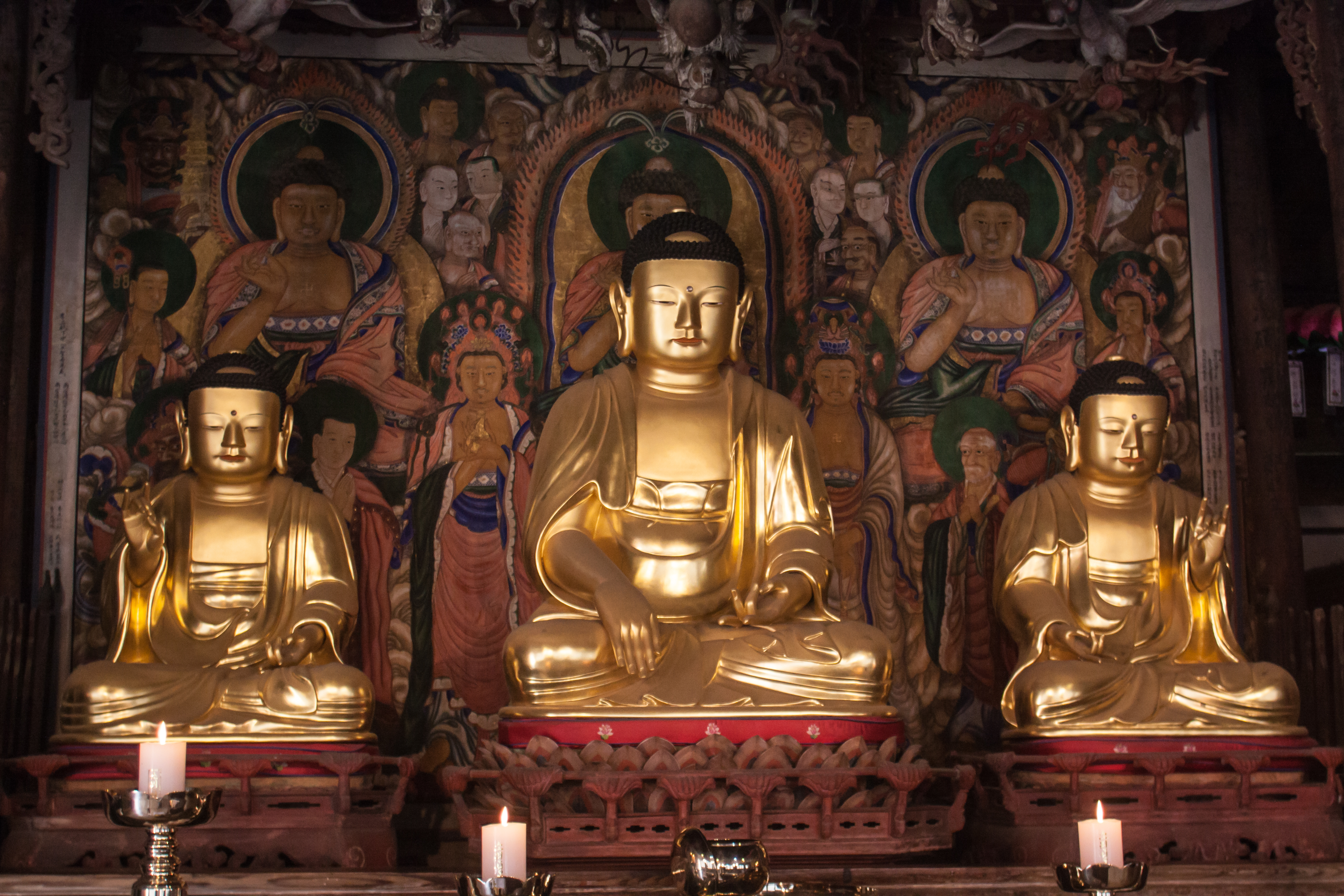 Seated Wooden Sakyamuni Buddha Triad at Jeondeungsa temple in Ganghwa, Korea